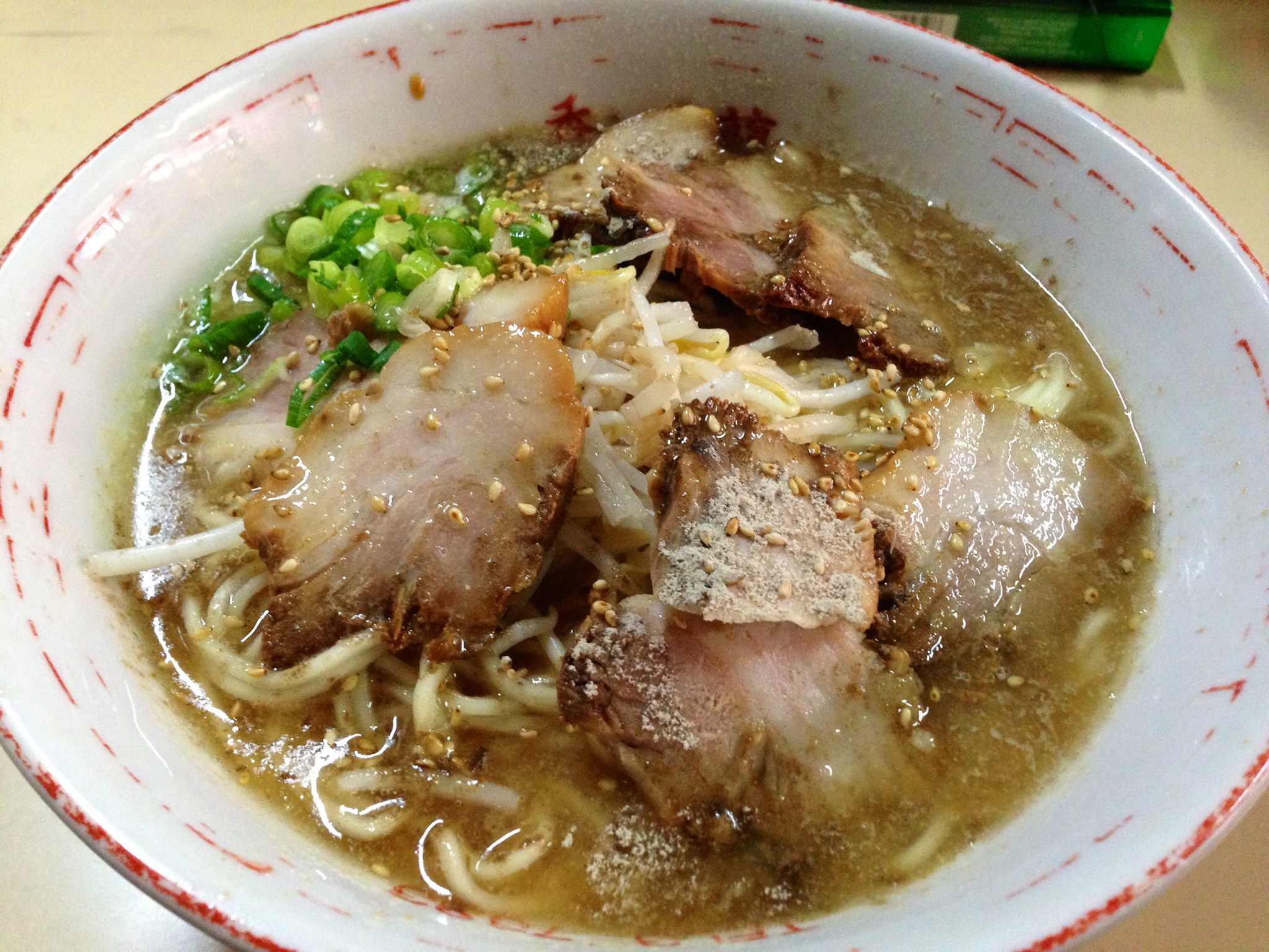 Saiki Ramen